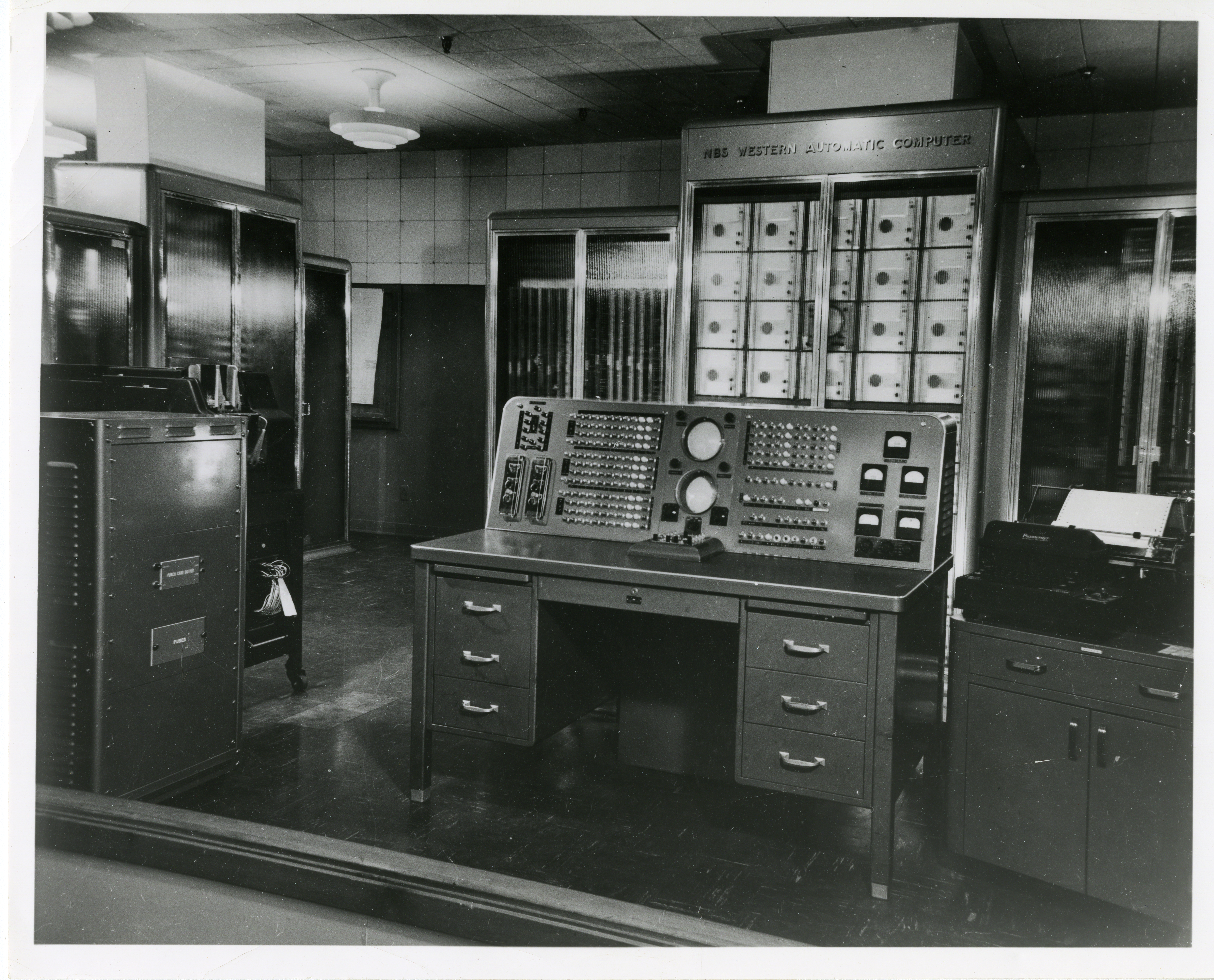 Directly behind the operating console [center foreground[ was the Williams memory consisting of a bank of 37 cathode-ray tubes. On either side of the Williams memory was cabinets containing the control unit. Other cabinets in the left background contained the magnetic drum auxiliary memory and its control circuitry. In front of the magnetic drum was the punched-card input-output system, and on the right of the console was a paper-tape input unit.